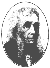 Felix Ravaisson-Mollien, 1813-1900, French Philosopher